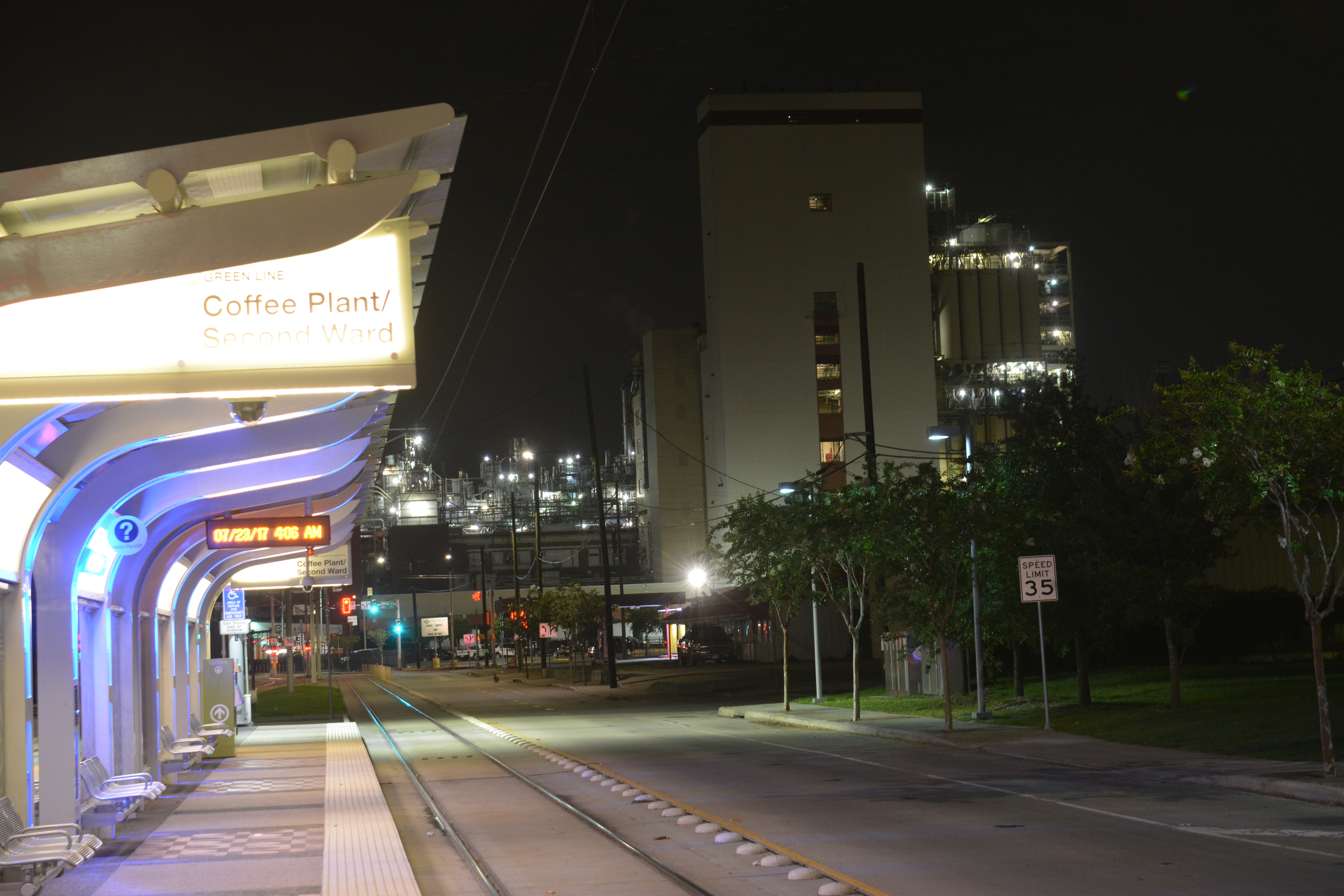 Coffee Plant Second Ward Rail Station. From the west part of the platform.